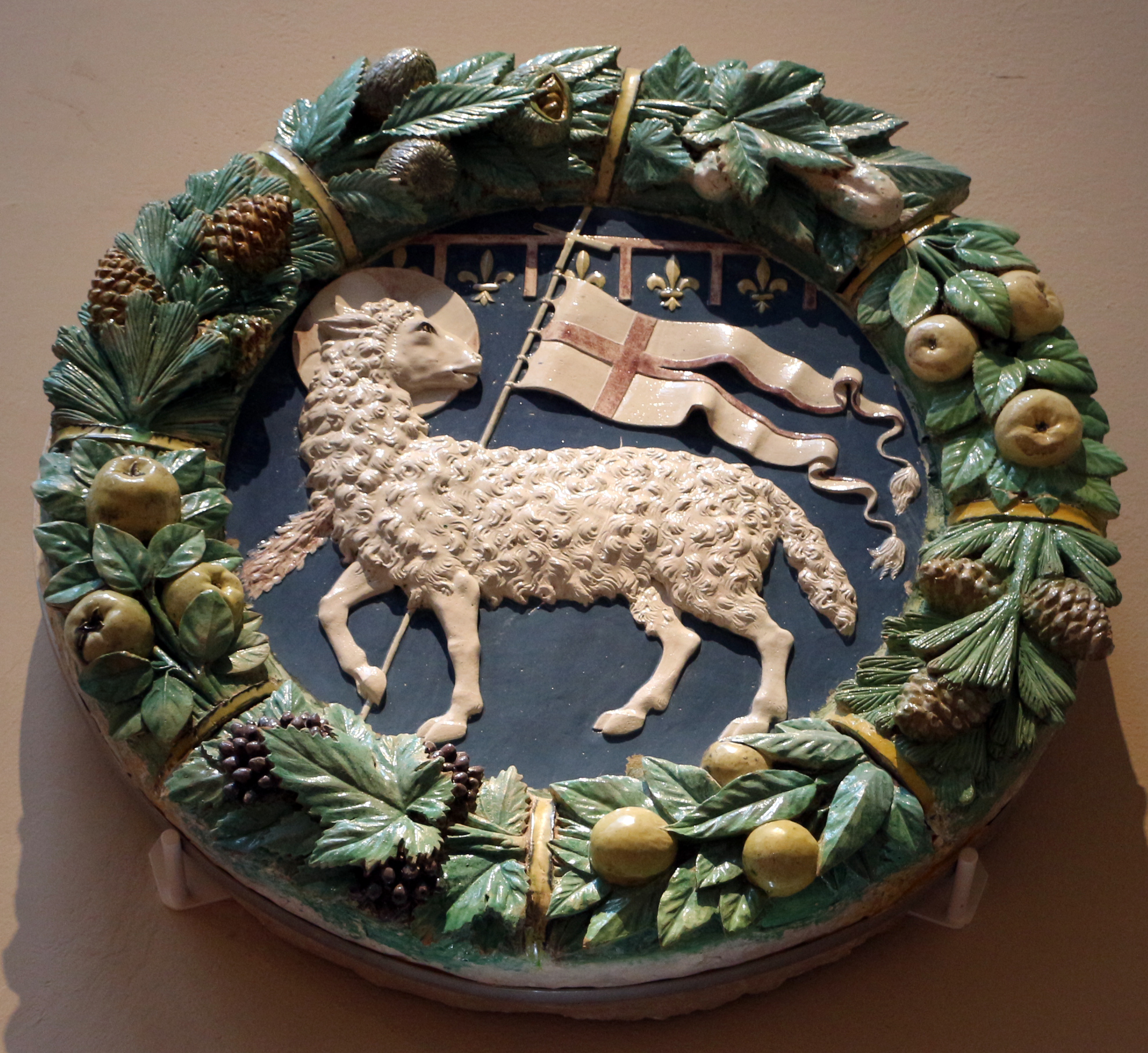 Museo dell'Opera del Duomo (Florence)